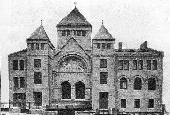 Postcard of the synagogue in Bingen-am-Rhein, built in 1905 by Ludwig Levy and destroyed in 1938 by the Nazis during the Kristal Nacht.